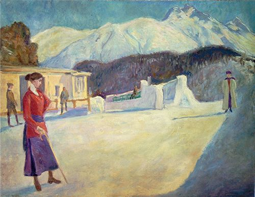 Start area at the St Moritz bob run. Oil on canvas, 48 x 62 cm